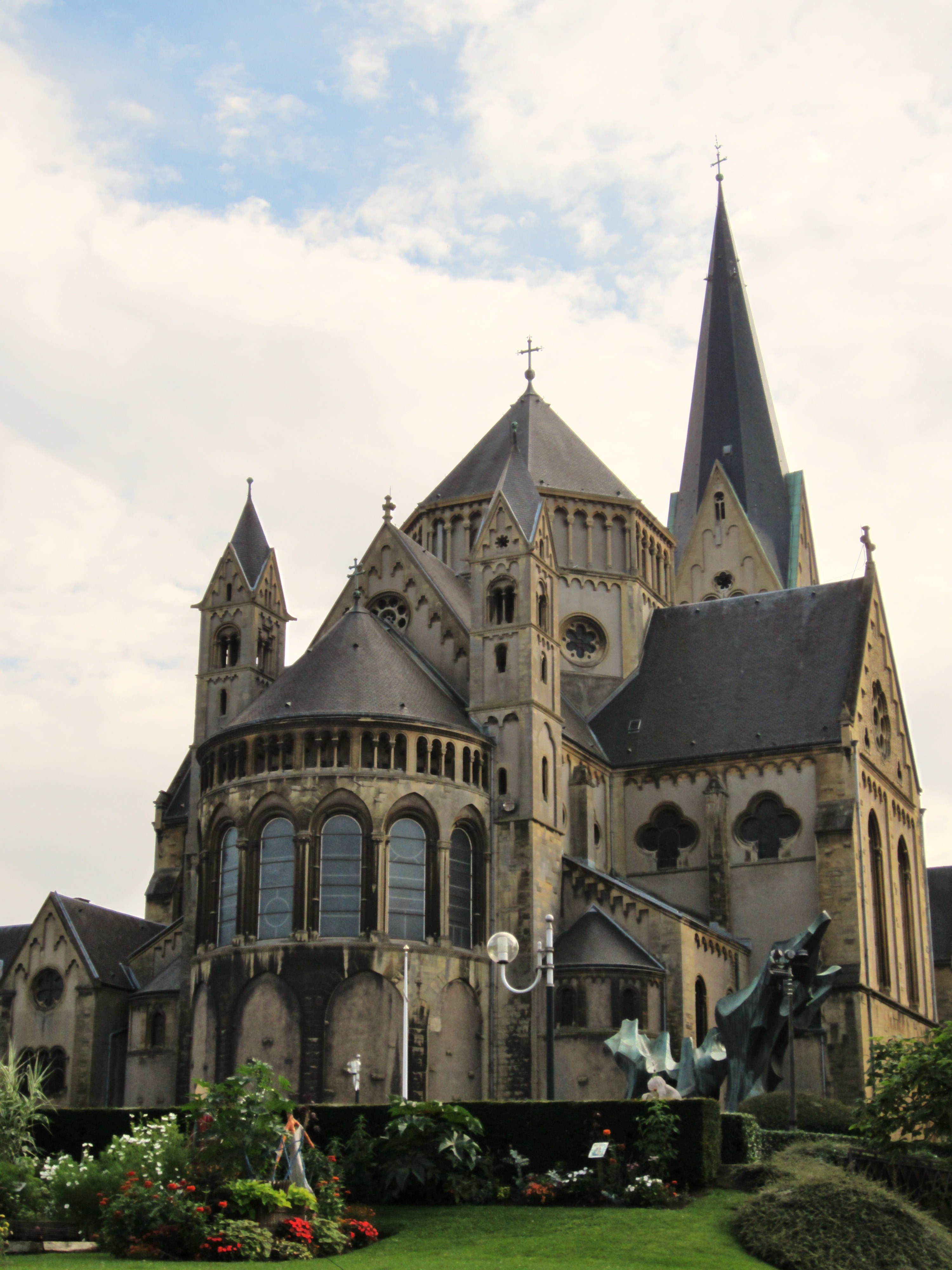 Description eglise Montigny Metz Date11 December 2011Sourcemon appareil photoAuthorAimelaimePermission (Reusing this file) eglise Montigny Metz